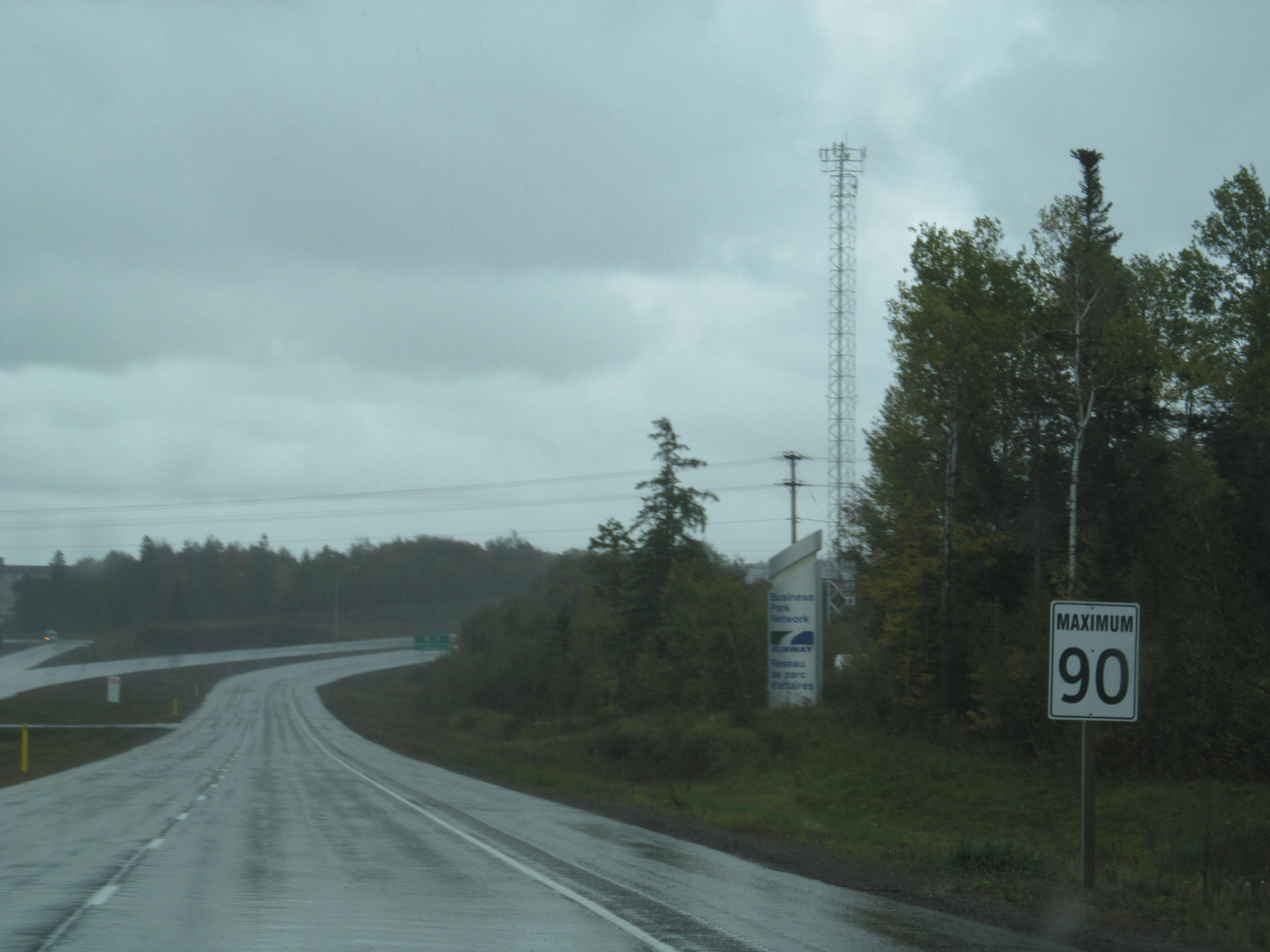 New Brunswick Provincial Route 8 near the RUNWAY Business Park Network in Fredericton, NB.